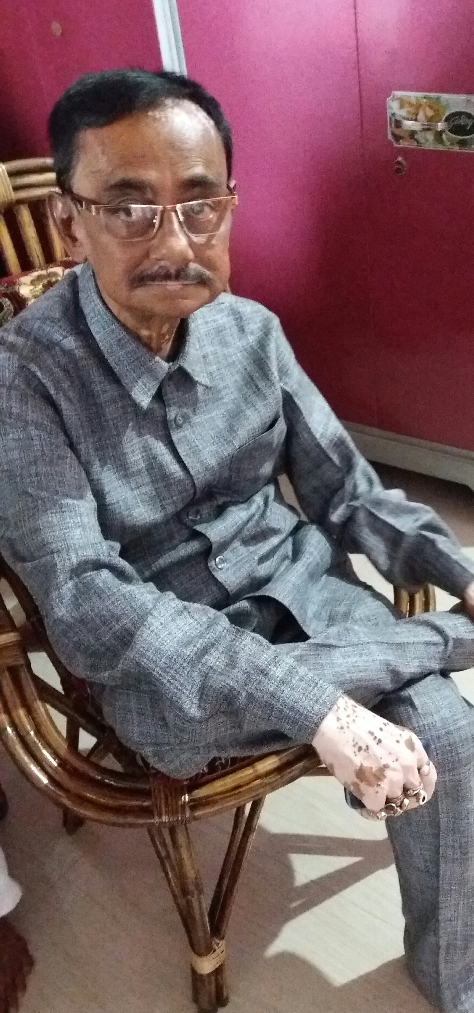 Dilip Sarkar was a eminent Social worker and BJP MLA from Badharghat Constituency of Tripura.